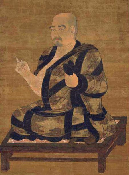 Portrait of Śubhakarasiṃha, 14th century, Kamakura, National Museum,Tokyo